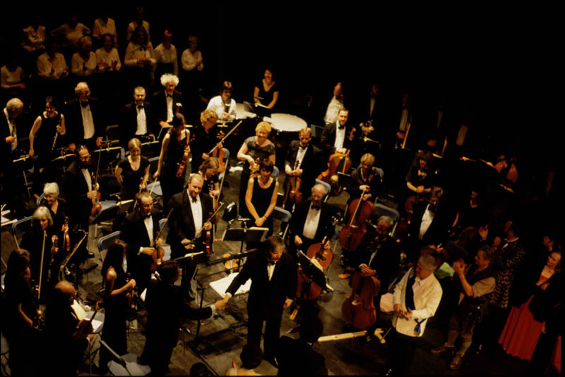 Salford Symphony Magic Flute Concert at the Lowry